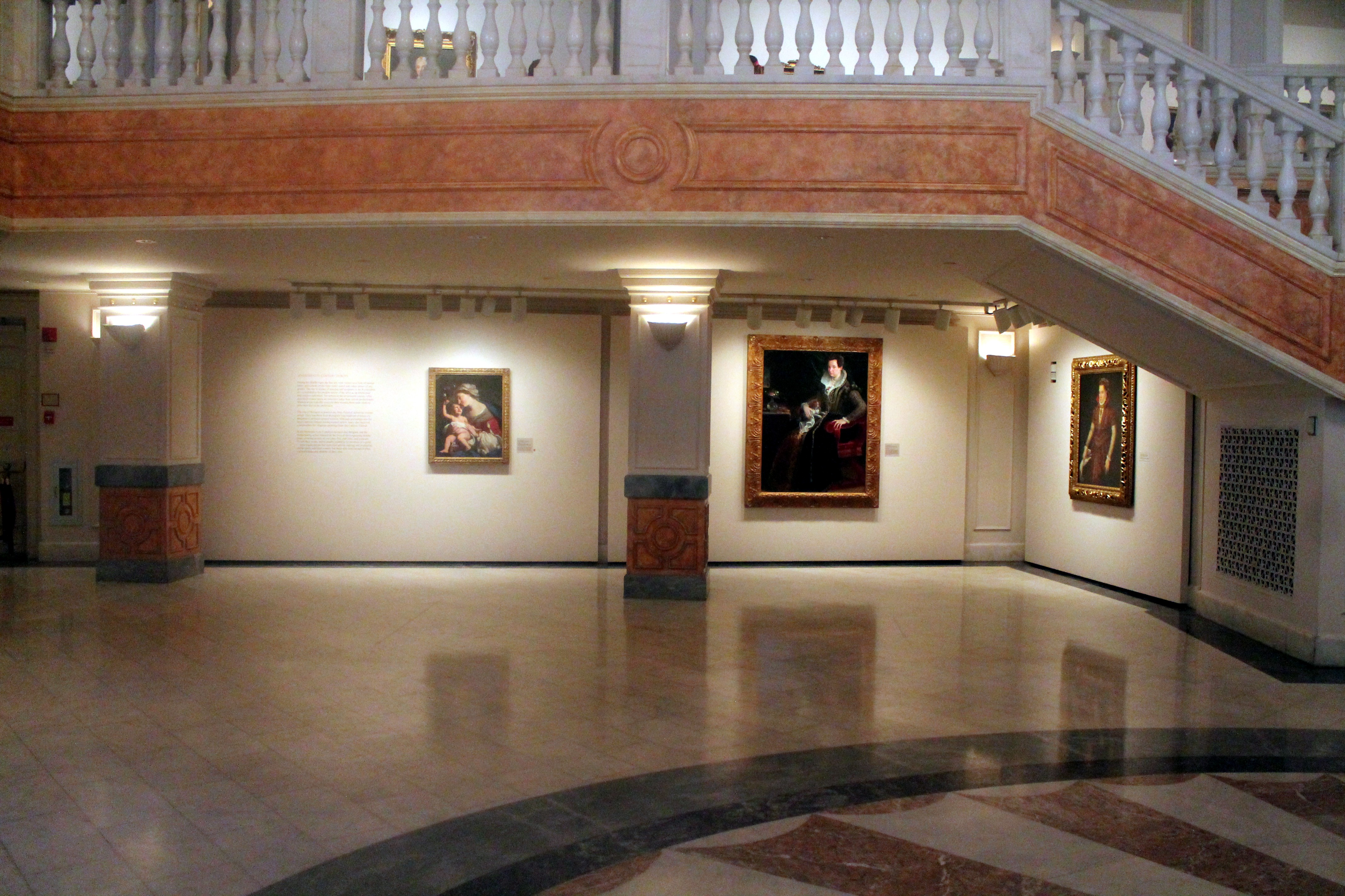 National Museum of Women in the Arts (NWMA) at 1250 New York Avenue, NW, Washington DC on Wednesday morning, 17 July 2013 by Elvert Barnes Photography 16th & 17th Century Collection Ground Floor Visit NWMA website at